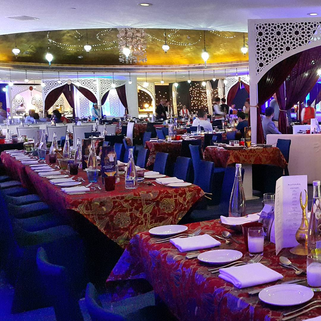 W Doha's Sultan tent at Iftar